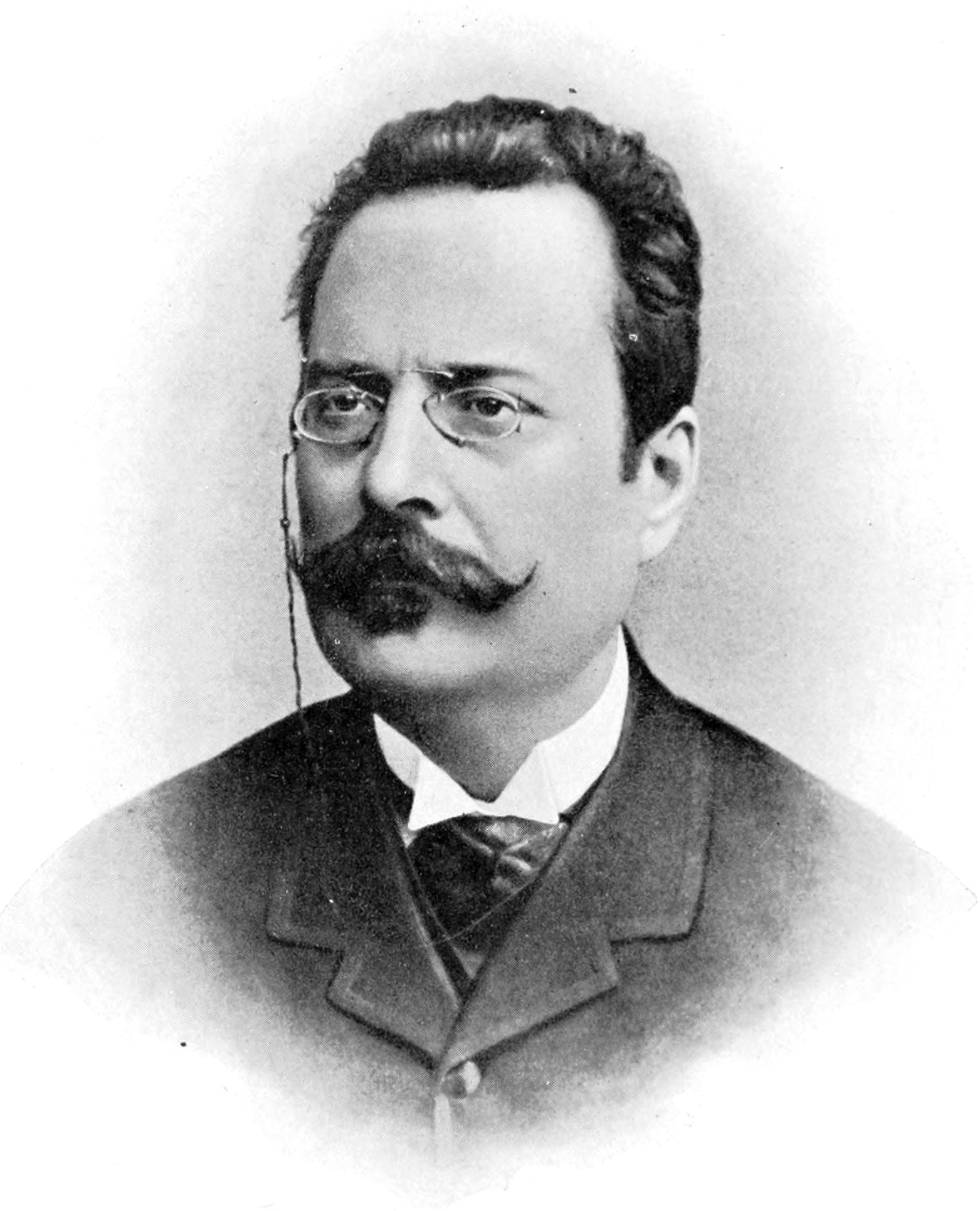 Salvatore Trinchese, portrait